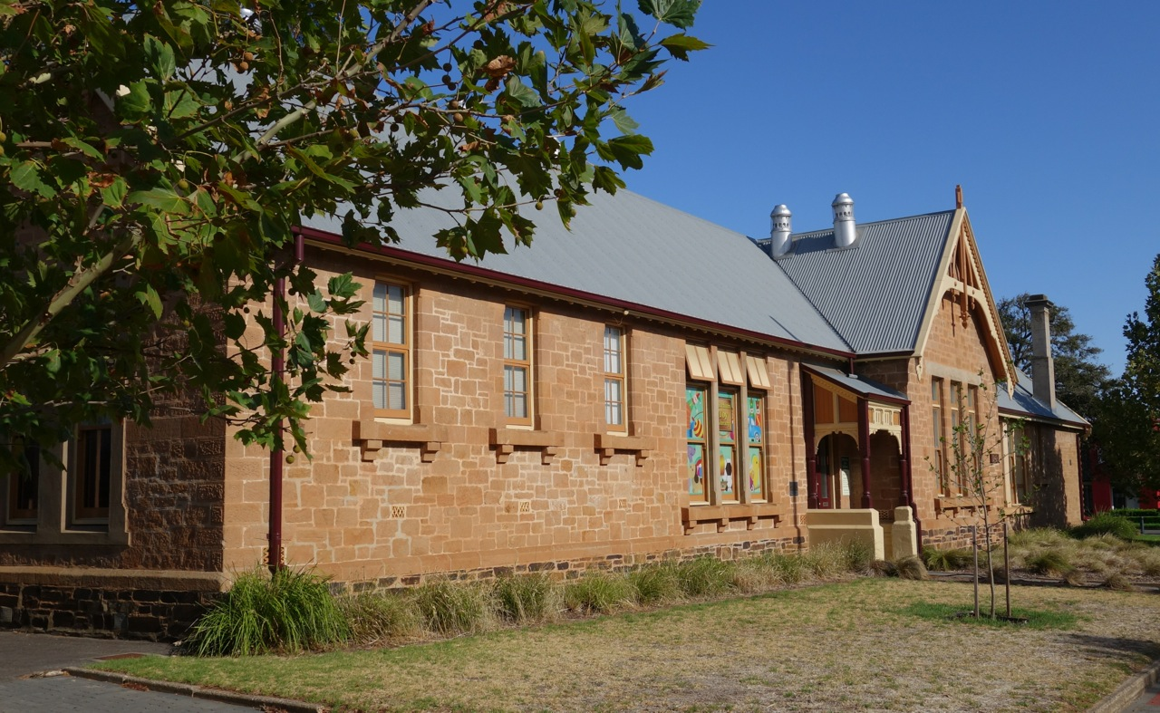 Old Mitcham Primary school, located along Belair Road, Lower Mitcham, a suburb in Adelaide, South Australia. Opened 1880 and closed as a school in 1981.